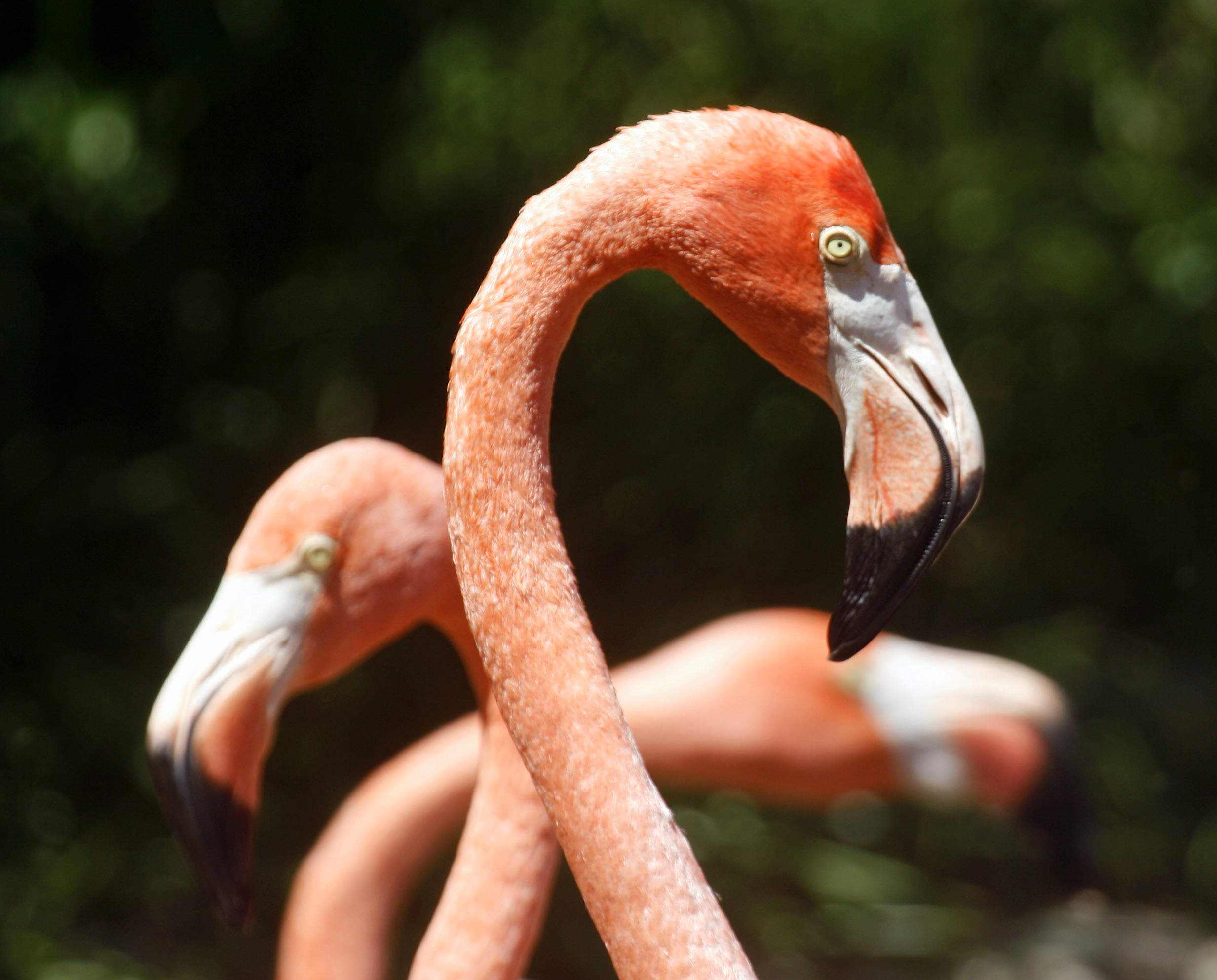 Flamingos at the Bermuda Aquarium, Museum & Zoo in Flatts Village, Bermuda